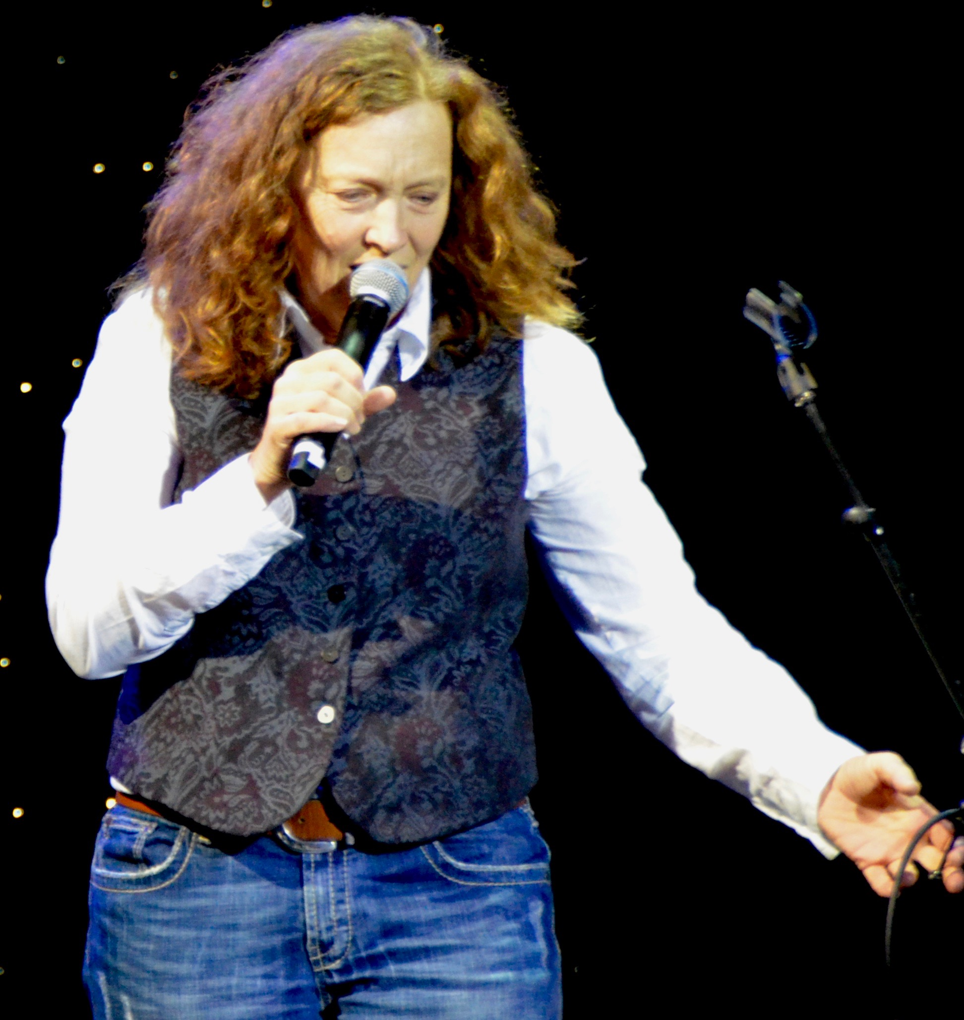 Teresa Trull performing during Olivia 40th anniversary cruise, February 2013